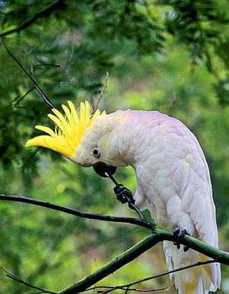 Sulphur-crested Cockatoo